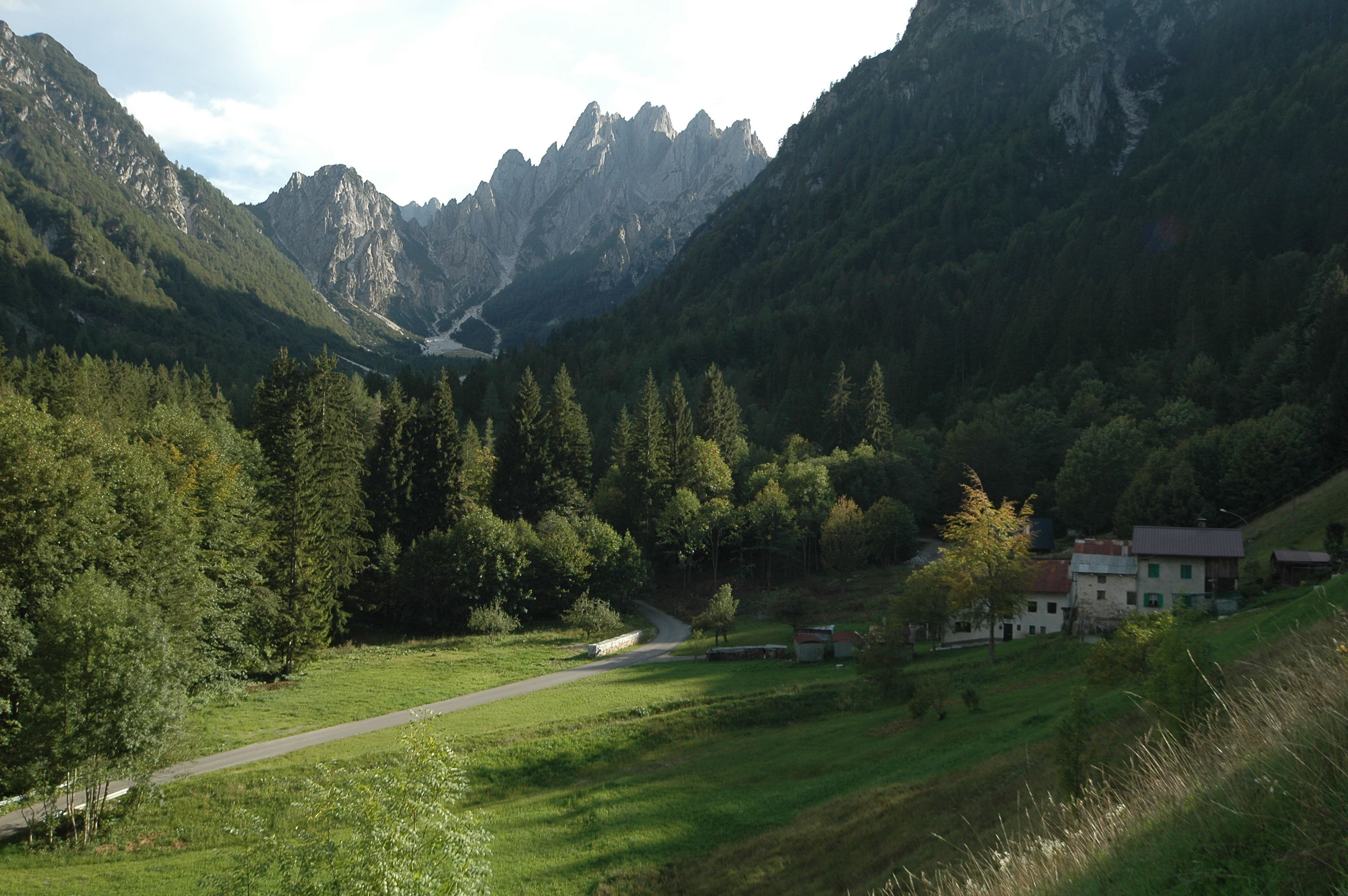 View from Aupa at the gorgeos mountains near Pontebba UD, Friuli, Italy